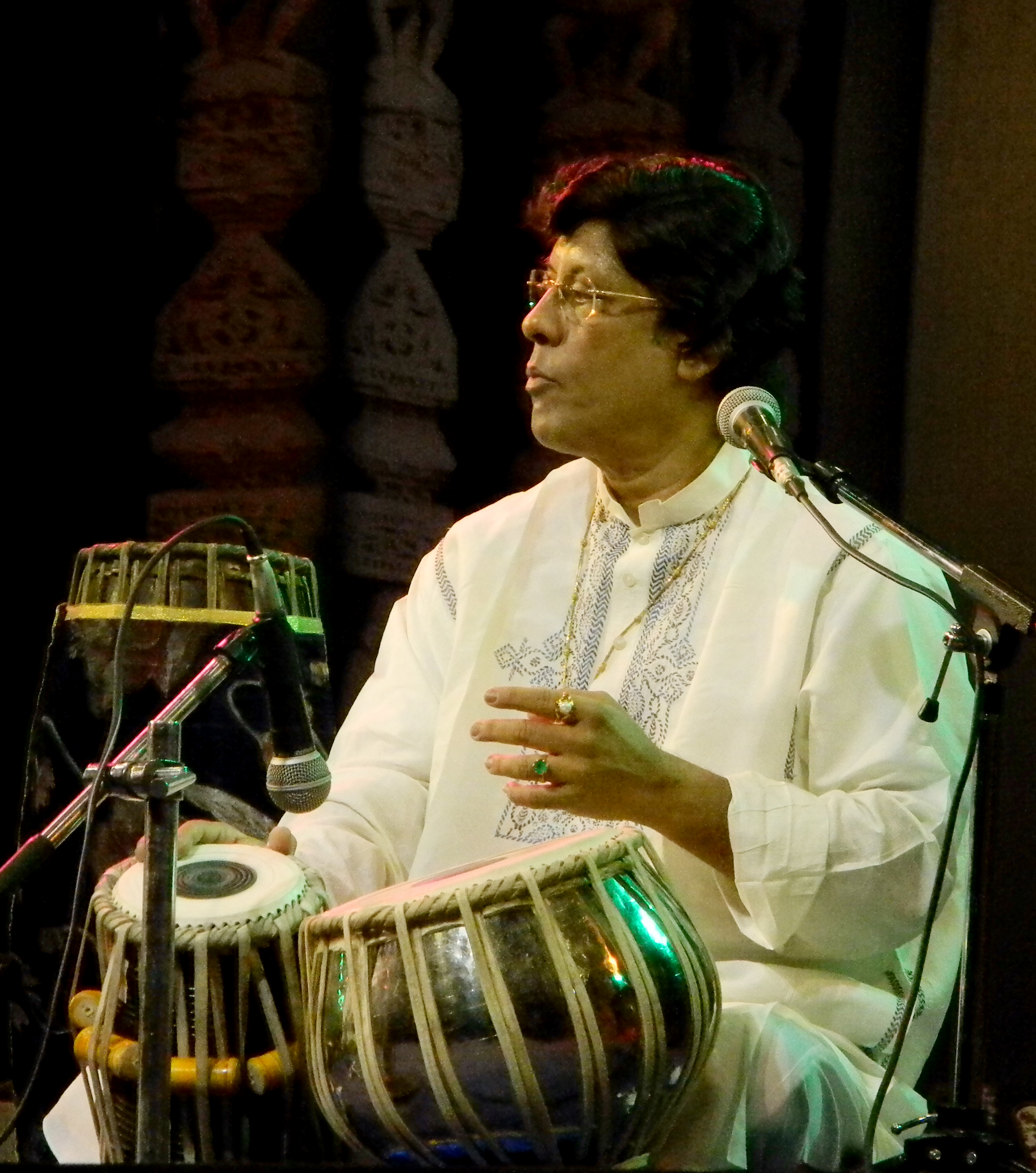 ଓଡ଼ିଆ: Anindo Chatterjee India's most eminent tabla player This media file is uploaded with Odia loves Wikipedia